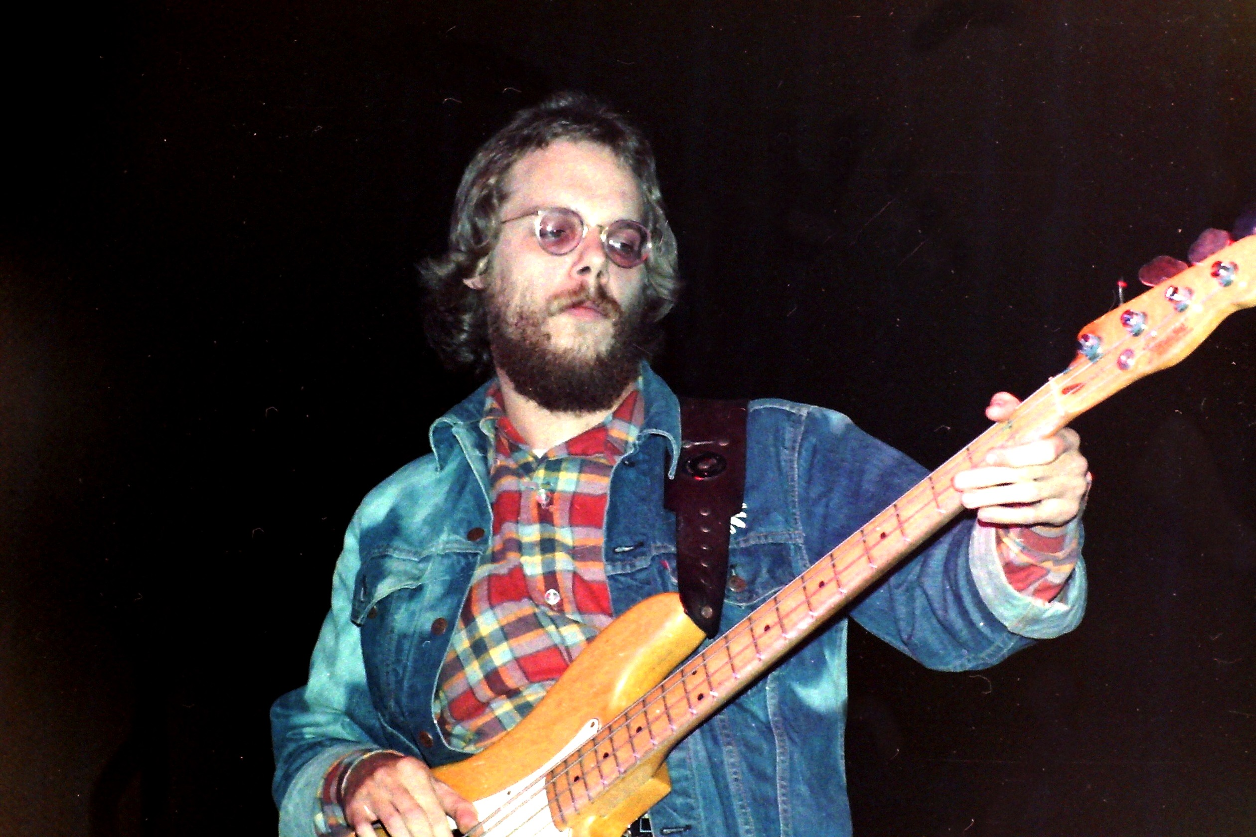 1972 - Tim Bogert, bass & vocals - Beck, Bogert & Appice